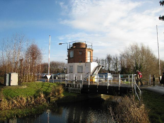 Bond's Mill Bridge This lift bridge over the Stroudwater Canal was restored in 1994 as the world's first glass re-forced plastic structure of its type. It is currently out of use pending redecking.